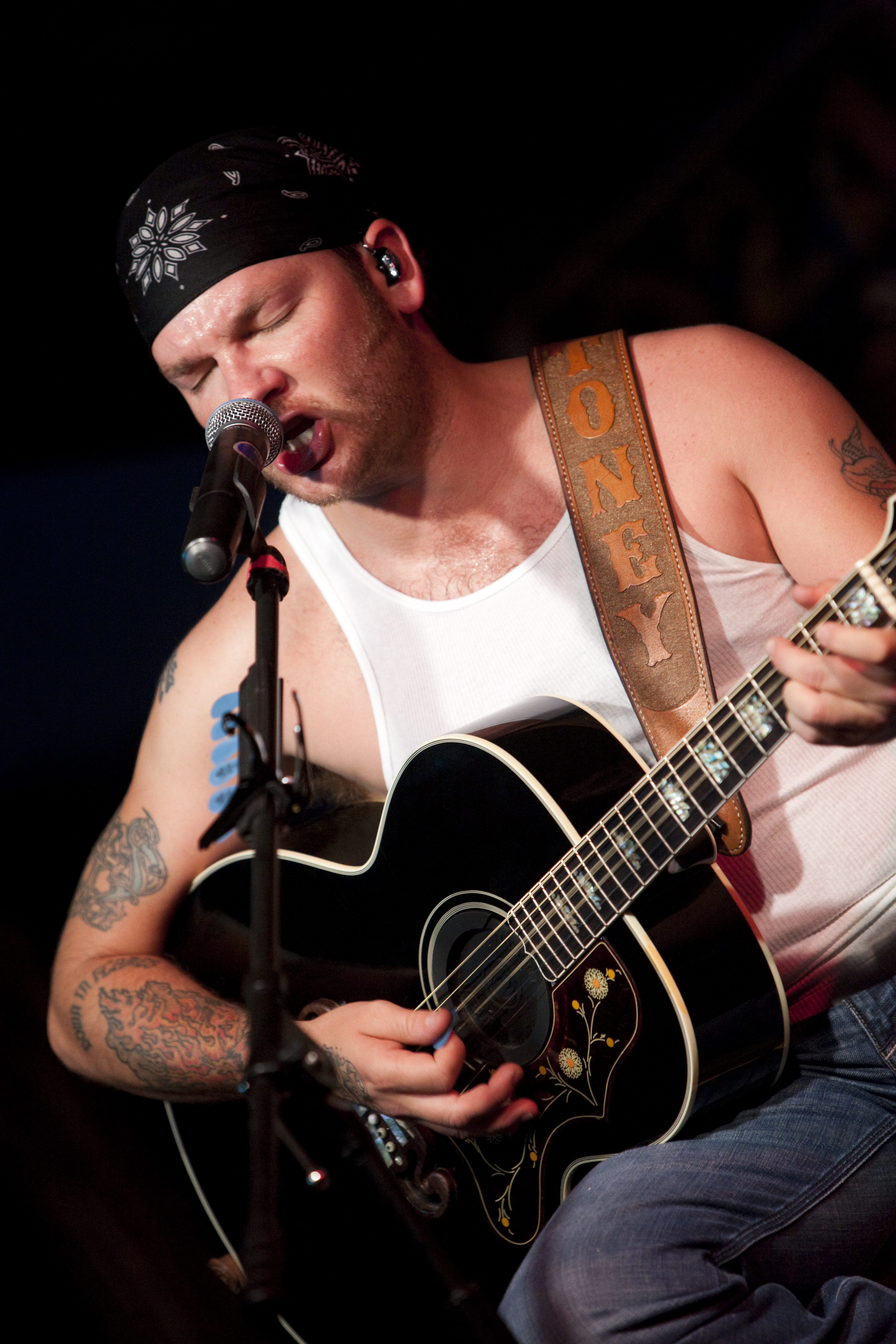 Stoney LaRue Live @ White Water Amphitheater in New Braunfels, Tx.